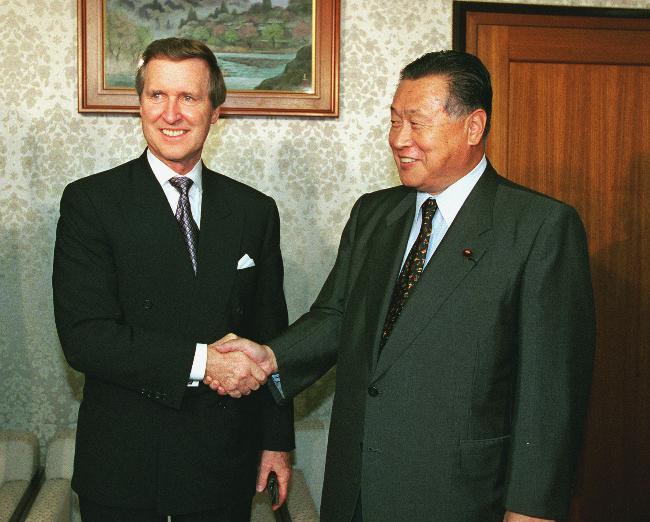 US Secretary of Defense William Cohen (left) and Japanese Prime Minister Yoshiro Mori pose for photographers prior to their meeting at the Kantei building in Tokyo, Japan.